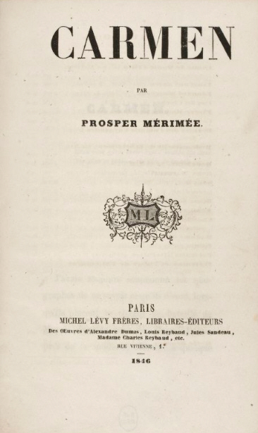 Title page from Carmen by Prosper Mérimée